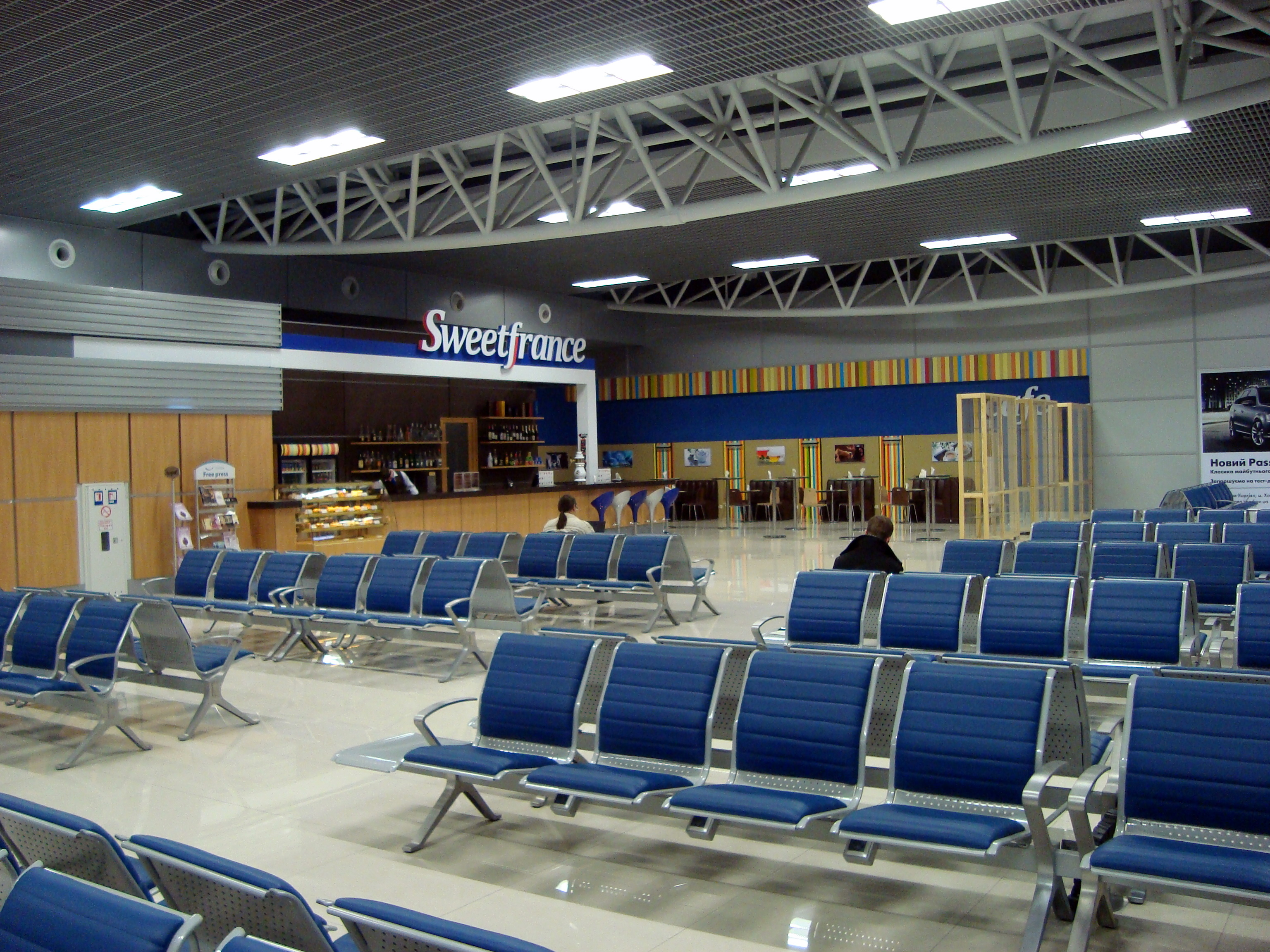 Departure lounge at Kharkiv International Airport, Kharkiv, Ukraine